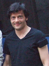 Christoph Leich from the German band Die Sterne in Magdeburg, May 2006